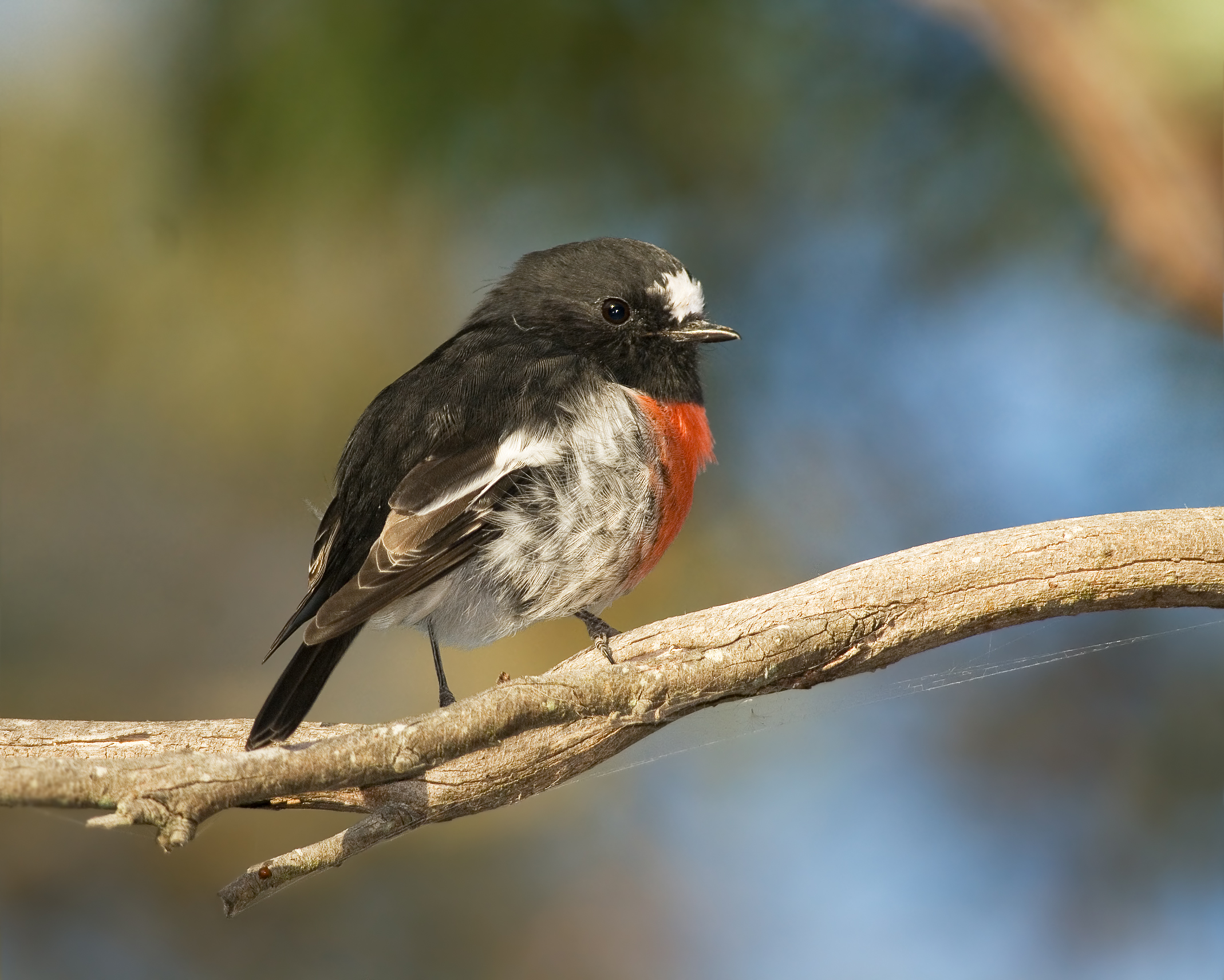 Scarlet Robin (Petroica boodang) in the Meehan Range, Tasmania, Australia Camera data Camera Canon EOS 400D Lens Canon EF 400mm f5.6L Flash Fill w/ Fresnel Extender Focal length 400 mm Aperture f/6.3 Exposure time 1/640 s Sensivity ISO 400